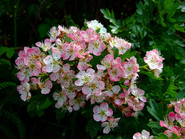 Queen of the May, in June The individual flowers of the hawthorn, seen close up, look like tiny roses, especially in this pink version: it is indeed a member of the genus Rosaceae. May blossom is traditionally considered unlucky to bring into the house This may have something to do with the trimethylamine present in the flowers - this substance is one of the first products formed when body tissue starts to decay. In former times corpses were kept in the house prior to burial and people would have been familiar with this odour of death.